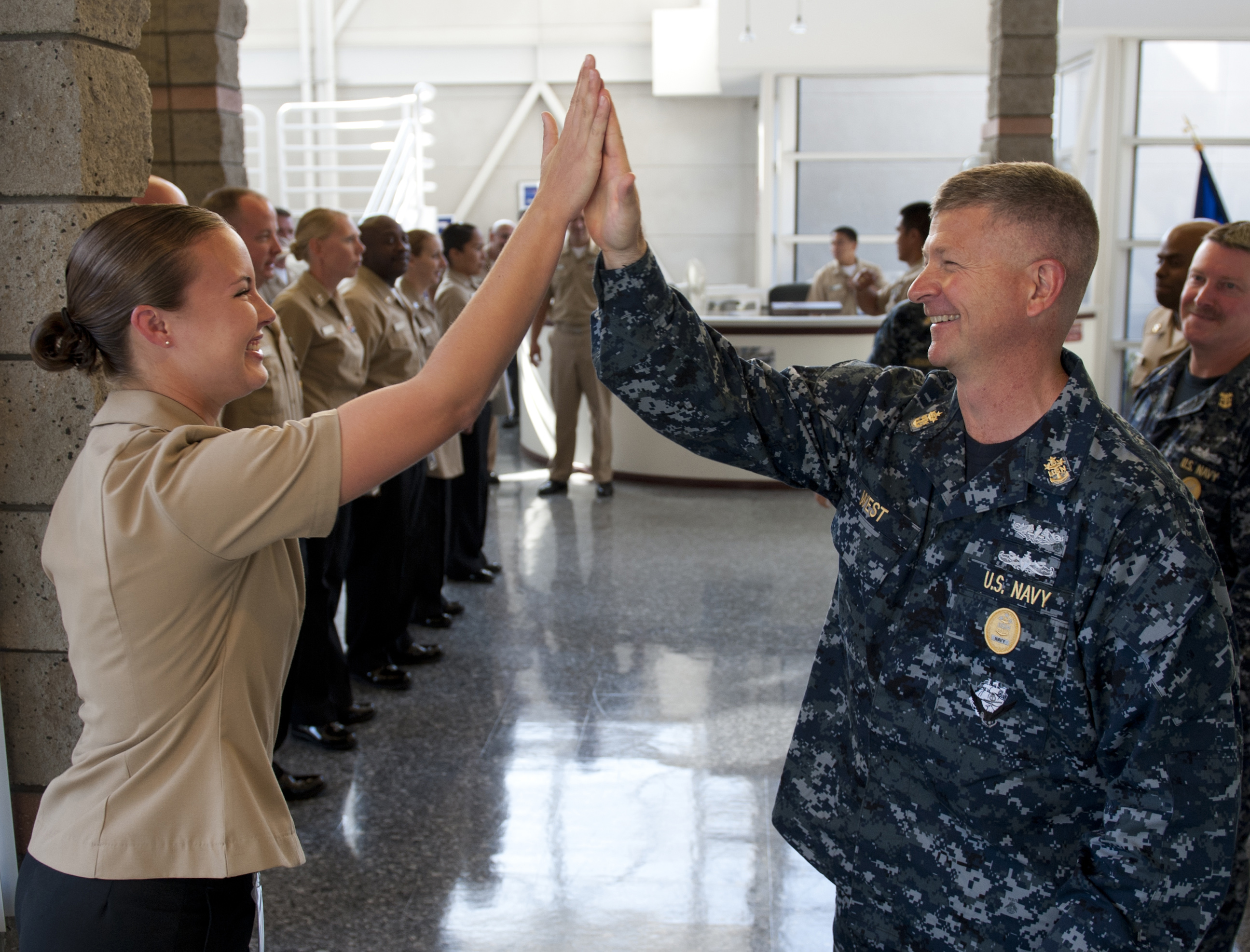 SAN DIEGO (Aug. 4, 2011) Master Chief Petty Officer of the Navy (MCPON) Rick D. West high fives Commander, Naval Surface Force U.S. Pacific Fleet Junior Sailor of the Quarter Information Systems Technician 3rd Class Jenna Davis during a visit to Naval Base San Diego. West is on a nine-day visit to Navy Region Southwest. (U.S. Navy photo by Mass Communication Specialist 2nd Class James R. Evans/Released)